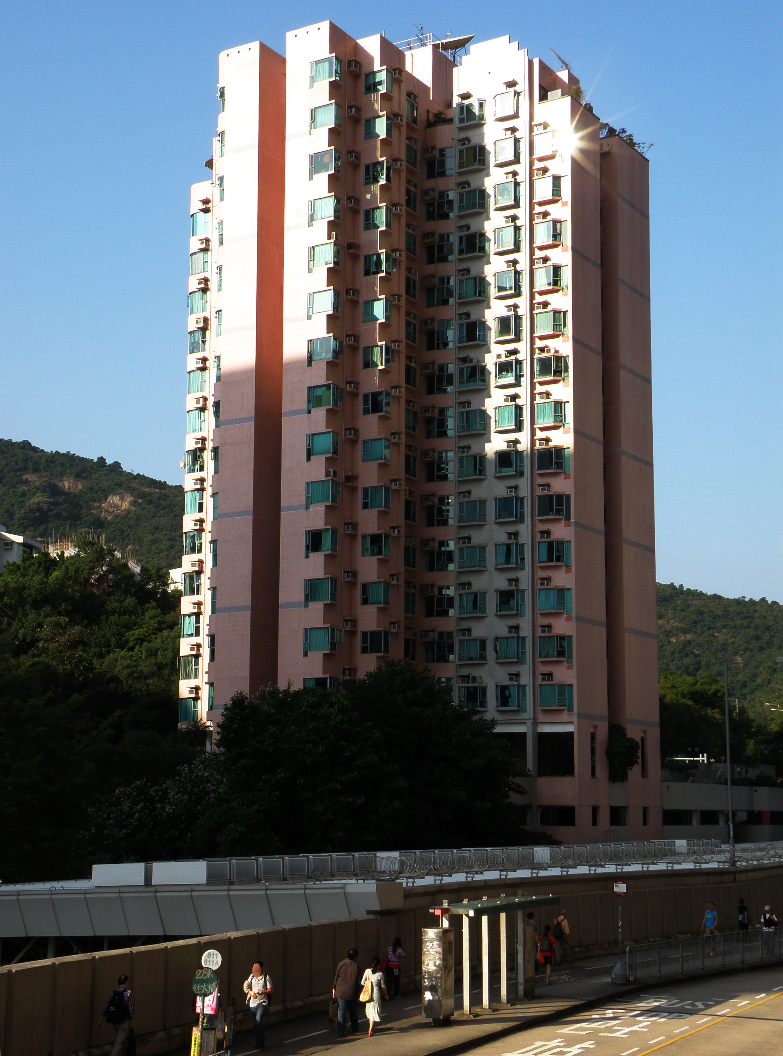 Ficus Garden in Fo Tan, Hong Kong.